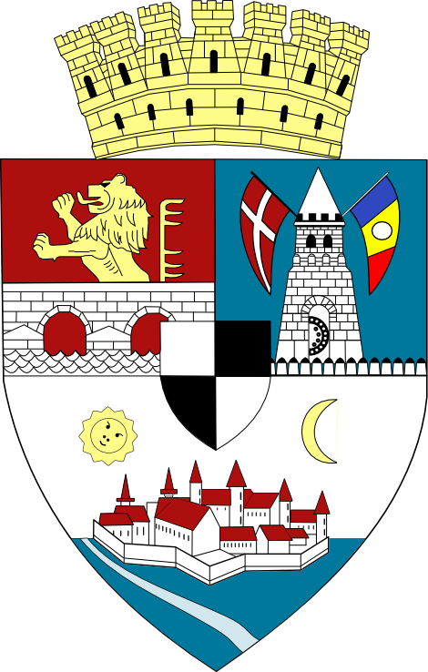 Coat of Arms of Timisoara.